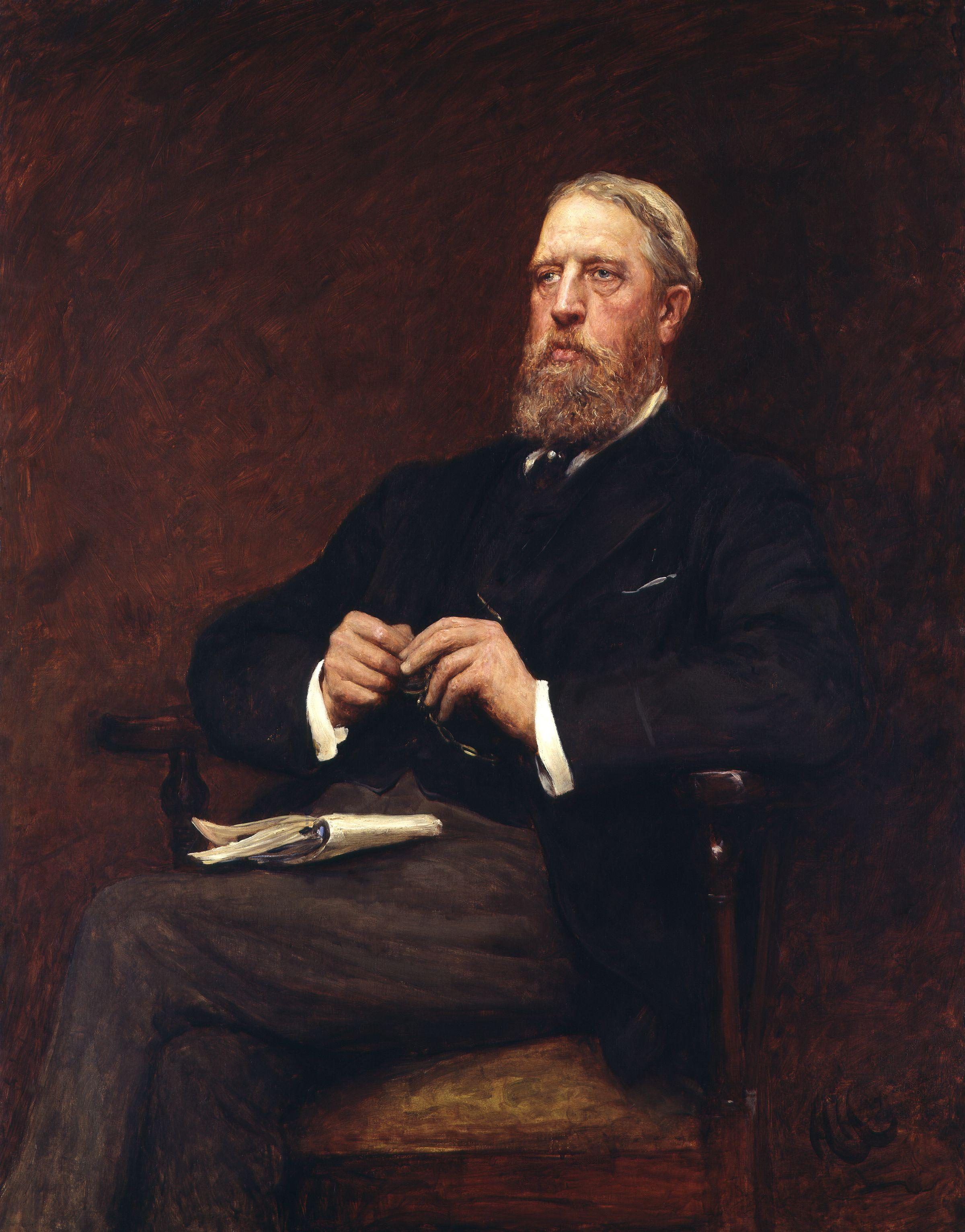 Portrait of Spencer Compton Cavendish, 8th Duke of Devonshire